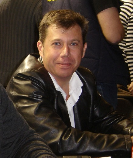 Carlos Pacheco